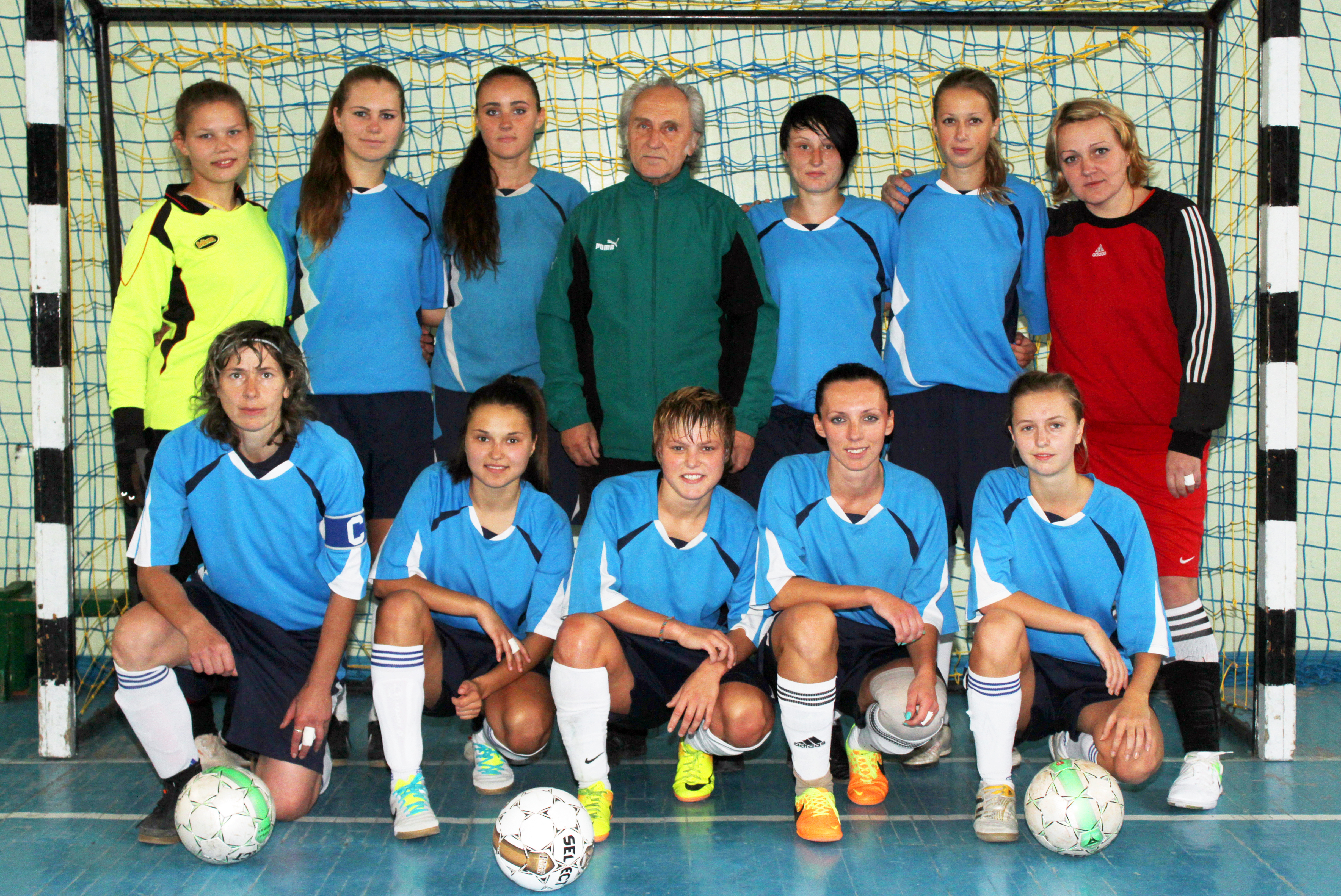 Players and coach Poltava futsal club Nika PNPU after match in 2013.